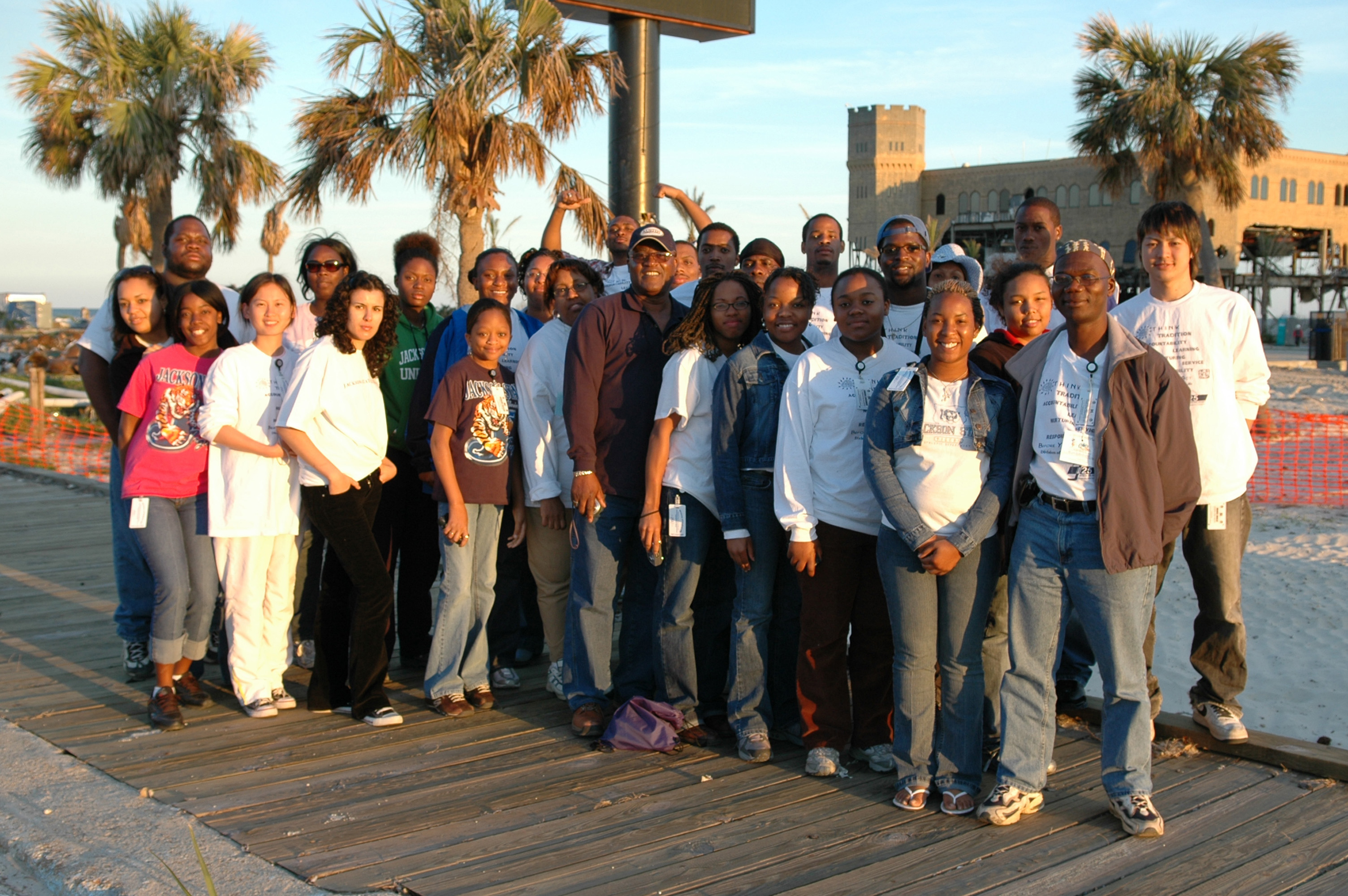 Biloxi, Miss., March 15, 2006 -- Students from Jackson State University on the beach in Biloxi after a day volunteering in the area. The students participated in The Alternative Spring Break Program using their holiday from classes to help the gulf coast residents recovery from Hurricane Katrina. Mark Wolfe/FEMA